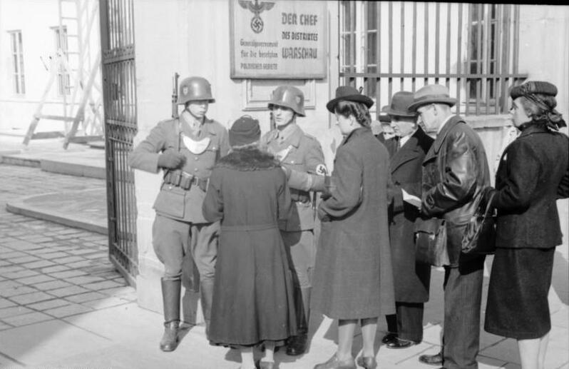 Warsaw during World War II: Guard at the entrance to Brühl Palace housing during WWII Governor of Warsaw. Sign on the wall: "Der Chef Des Distriktes Warshau".